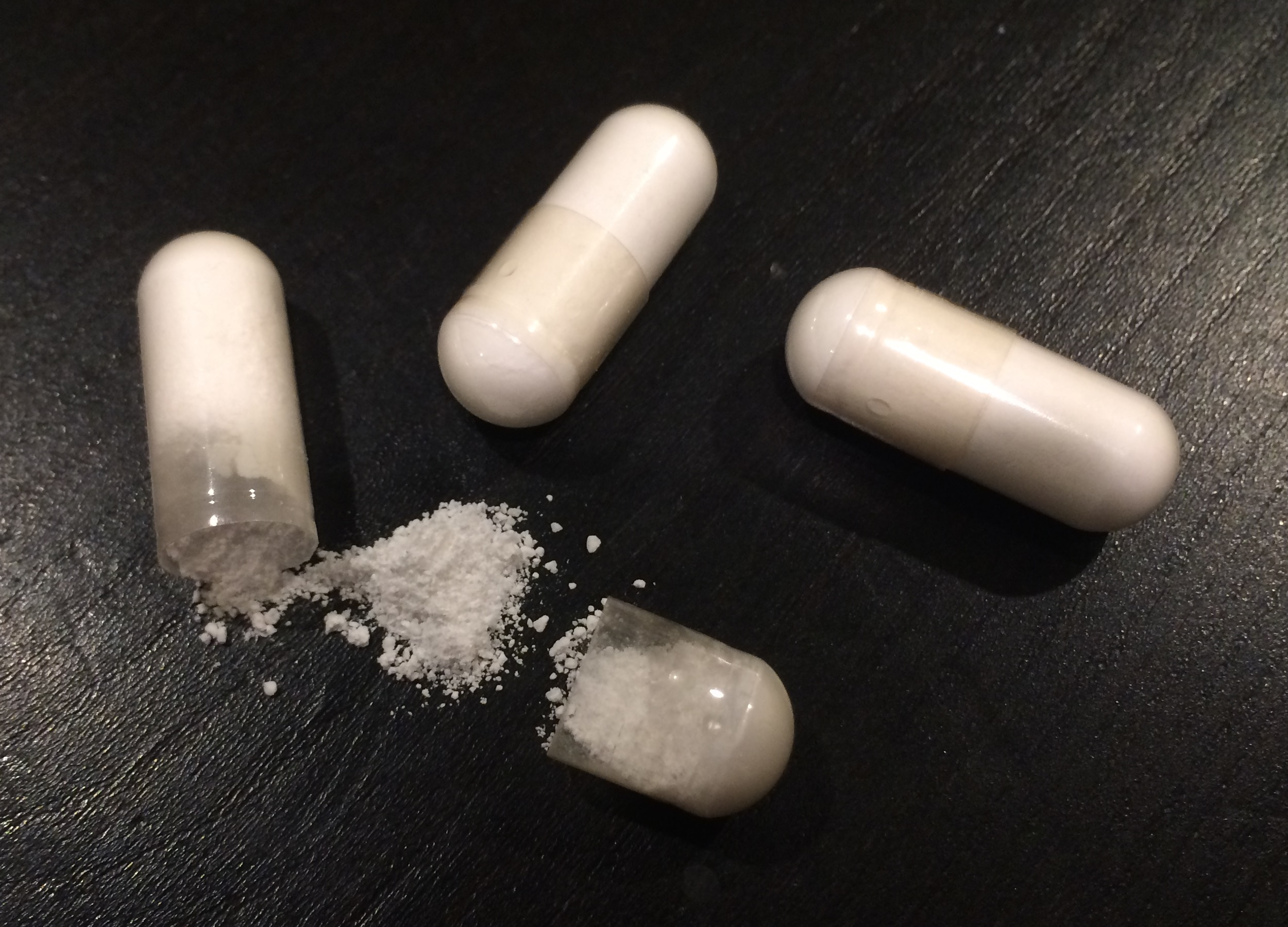 Three size 000 gelatin capsules, each containing 1 gram of calcium β-hydroxy β-methylbutyrate monohydrate and an unspecified amount of microcrystalline cellulose and magnesium stearate. These capsules are from the "Optimum Nutrition" brand of calcium HMB.